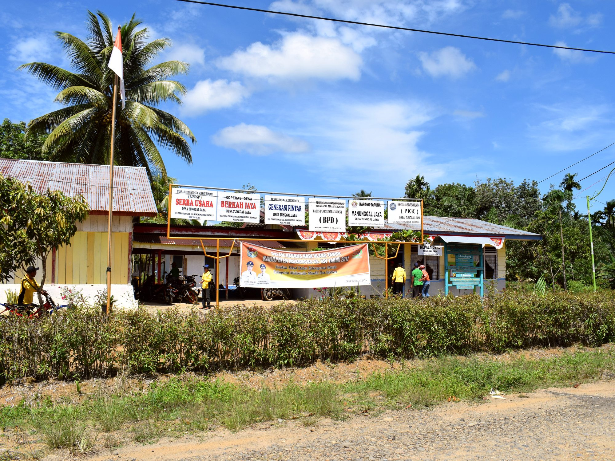 Tunggal_Jaya Village Office, Teras Terunjam, Mukomuko Regency, Bengkulu (Sumatra).